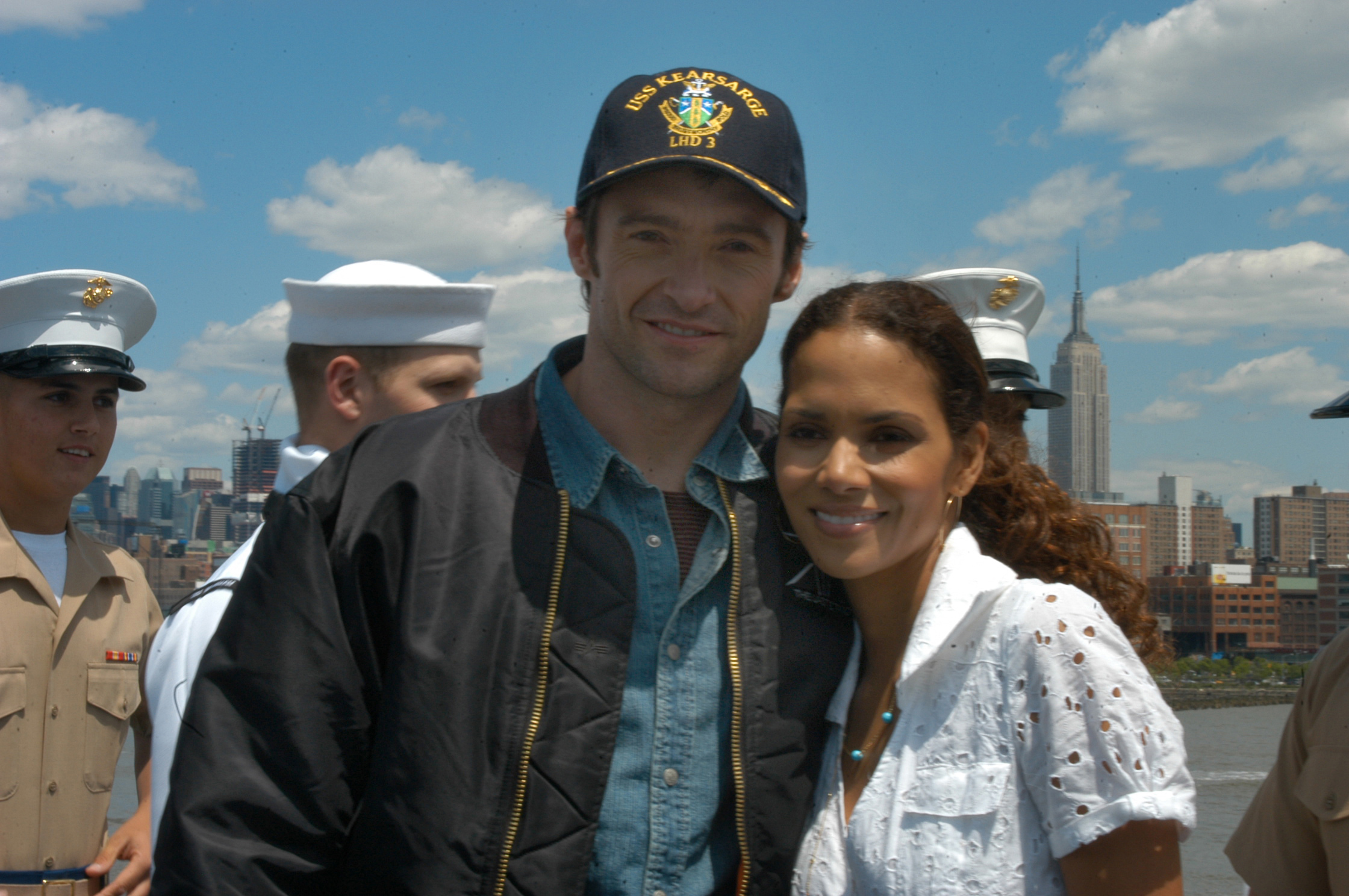 New York Harbor (May 24, 2006) - Actors Hugh Jackman, AKA "Wolverine" and Ms. Halle Berry, AKA "Storm" pose for a photograph on the flight deck aboard the amphibious assault ship USS Kearsarge (LHD 3). Both star in the upcoming 20th Century Fox action, sci-fi, "X-Men: The Last Stand," and were aboard to visit with Sailors and embarked Marines during the opening day of Fleet Week New York 2006. The crew was also given a special sneak preview of the film before its worldwide release date of May 26, 2006. Fleet Week has been sponsored by New York City since 1984 in celebration of the United States sea service. The annual event also provides an opportunity for citizens of New York City and the surrounding Tri-State area to meet Sailors, and Marines, as well as witness first hand the latest capabilities of today's Navy and Marine Corps team. Fleet week includes dozens of military demonstrations and displays, including public tours of many of the participating ships. U.S. Navy photo by Photographer's Mate 2nd Class Valerie S. Guffey (RELEASED)